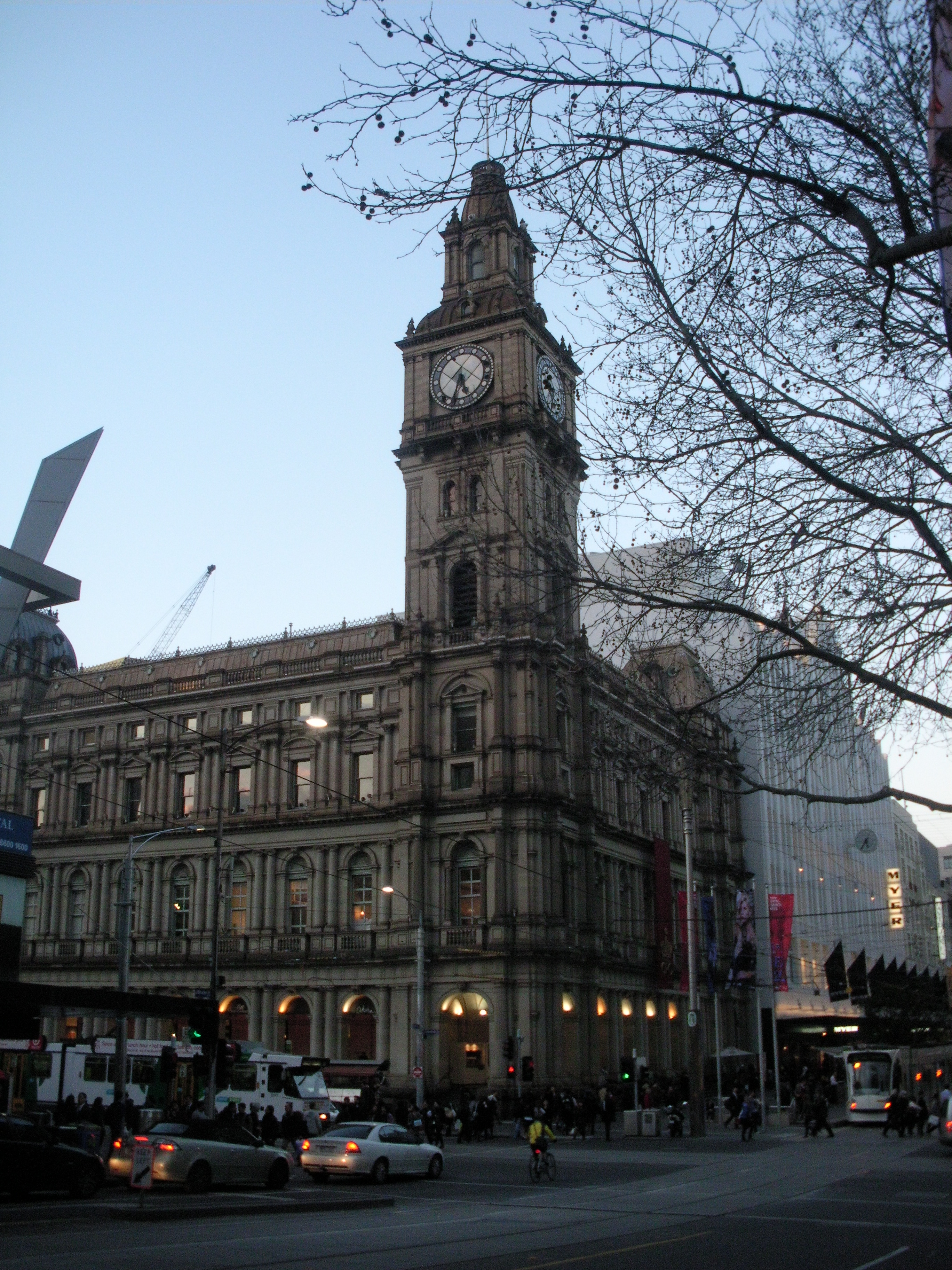 The Melbourne General Post Office at dawn